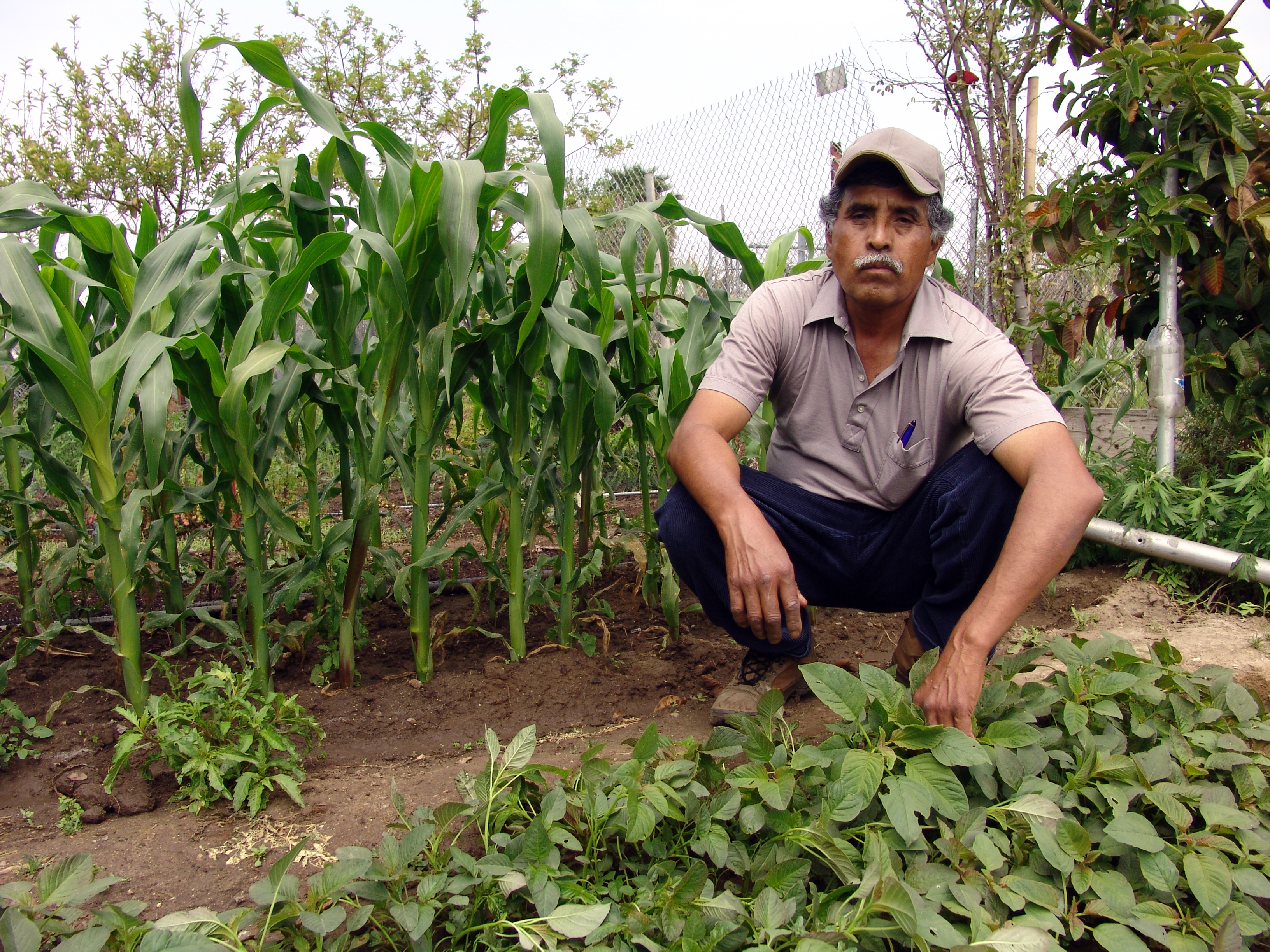 South Central Farm in the city of Los Angeles California. The 14 acres located at 41st and Alameda St. is one of the largest urban gardens in the United States.